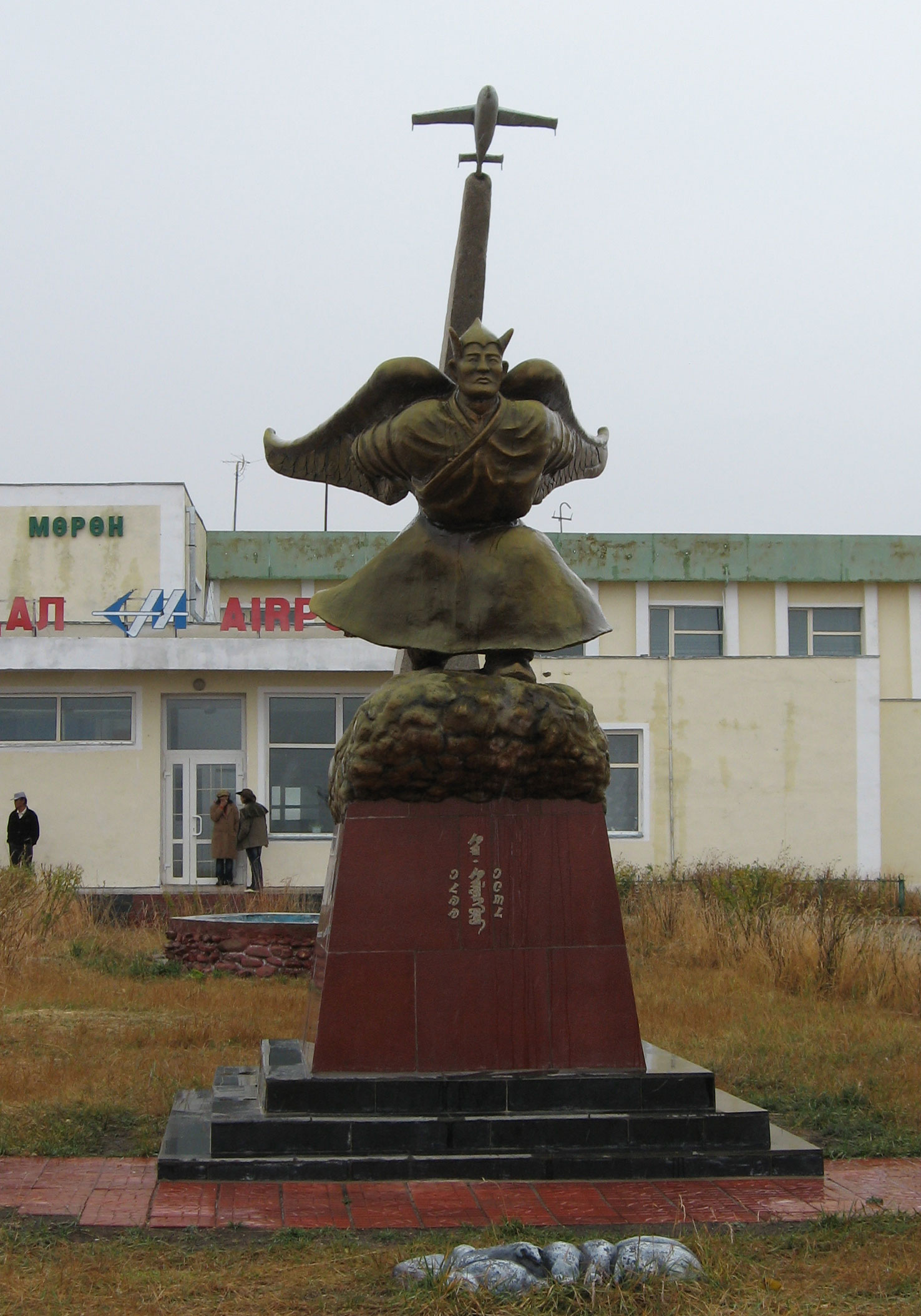 Gelenkhüü statue in front of the airport in Mörön / Mongolia taken in September 2006